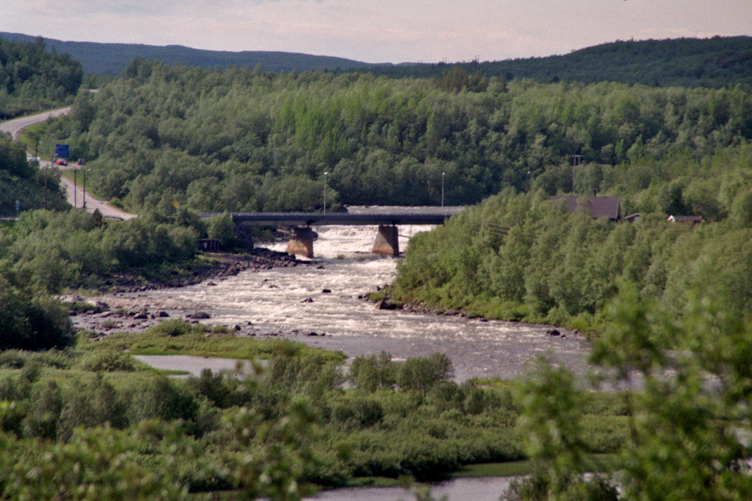 Neiden river in Neiden in Sør-Varanger in Finnmark in Norway